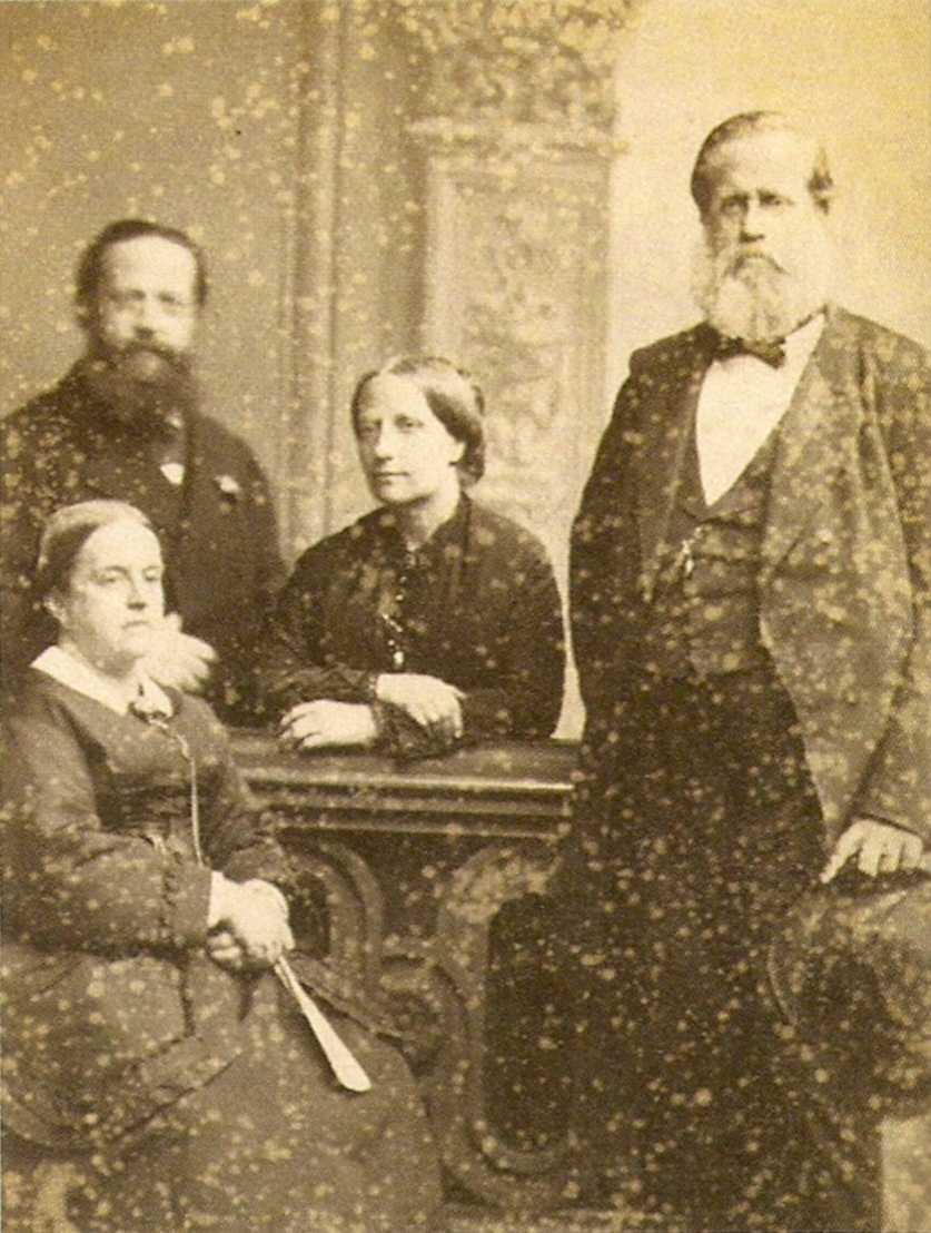 From left to right: Princess Januária, the Count of Áquila, Empress Teresa Cristina and Emperor Pedro II of Brazil